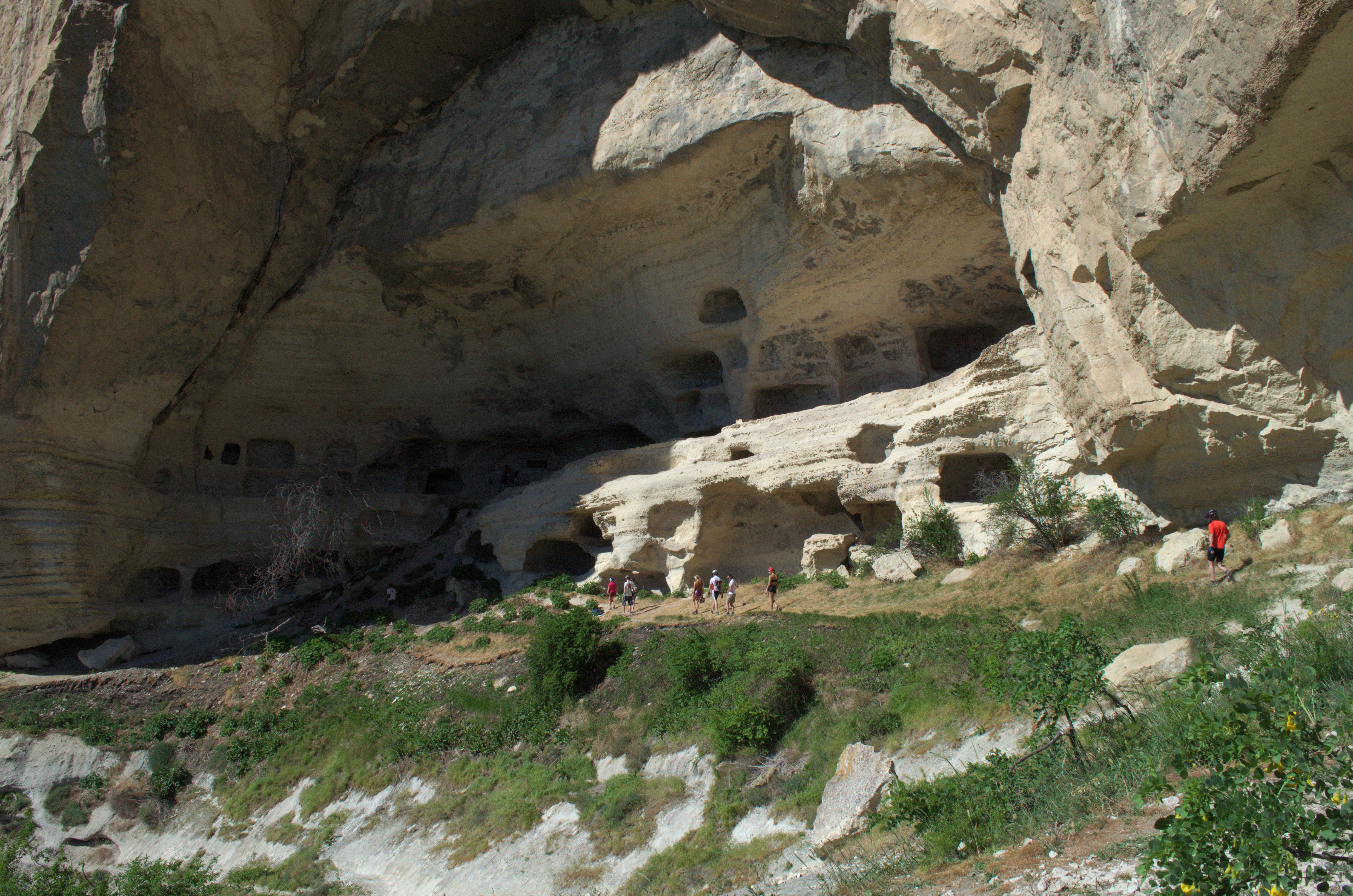 Cave Monastery Kachi-Kalon